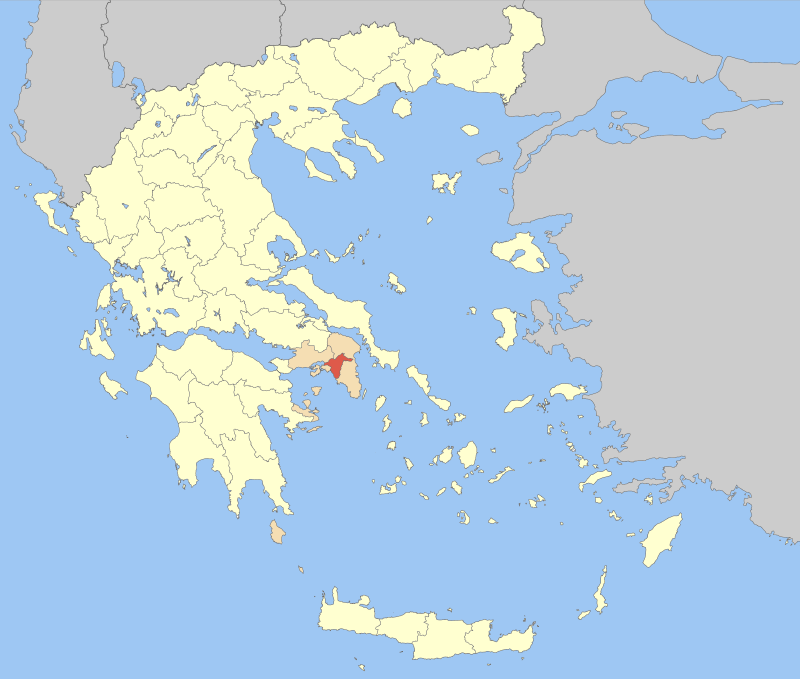 Locator map of Athens prefecture (Νομαρχία Αθηνών) in Greece